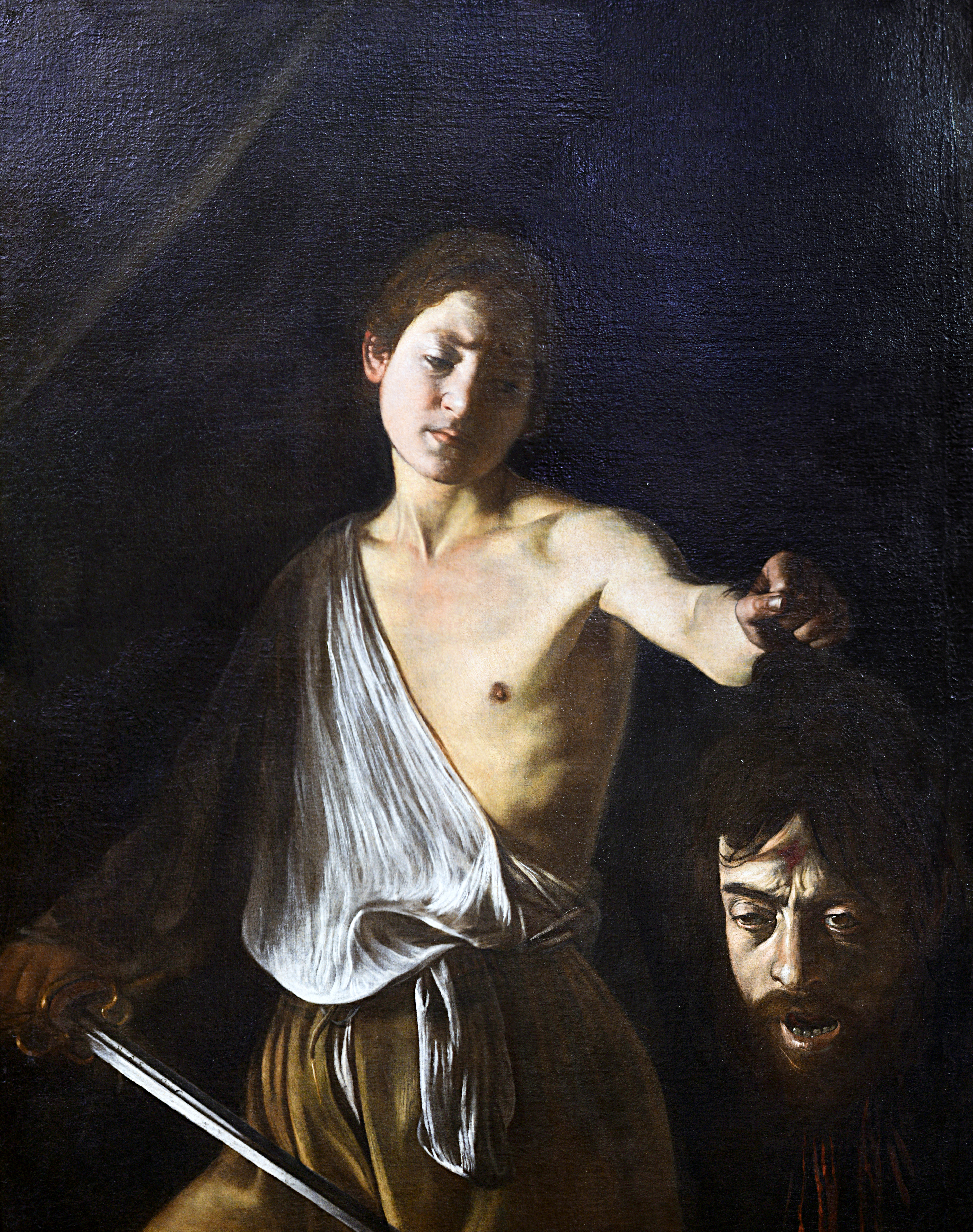 David holding the head of Goliath by Caravaggio (Rome)